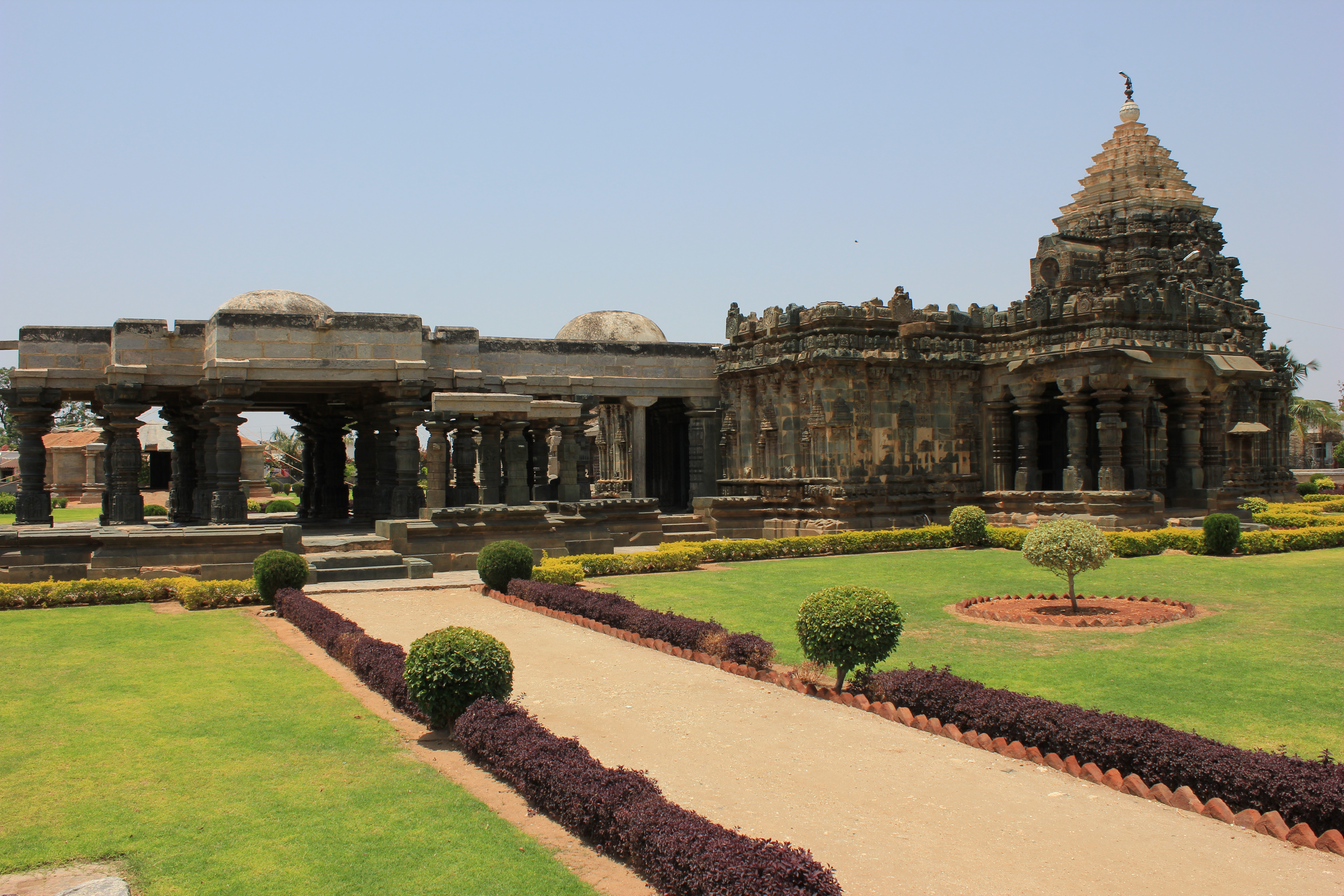 This photograph was taken by me at the the Mahadeva Temple at Itagi (or Ittagi) in the Koppal district of Karnataka state, India. Called Devalaya Chakravarti ("emperor among temples") in inscriptions It was built circa 1112 CE by Mahadeva, a commander (dandanayaka) in the army of the Western (Kalyani) Chalukya King Vikramaditya VI.